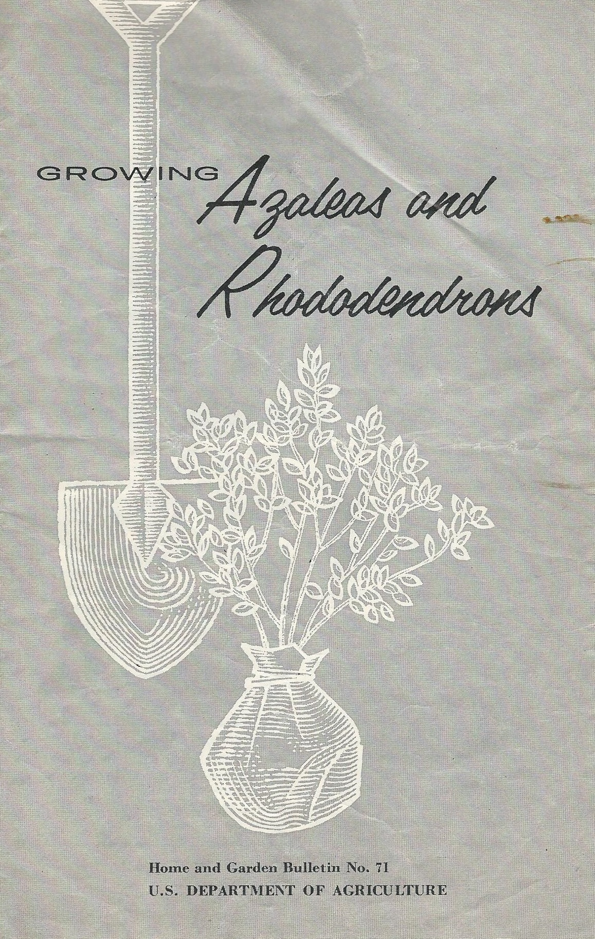 Cover of the 8-page publication, "Growing Azaleas and Rhododendrons." Home and Garden Bulletin No. 71, Crops Research Division, Agricultural Research Service, U.S. Department of Agriculture. Publication shows signs of having been used in the garden.